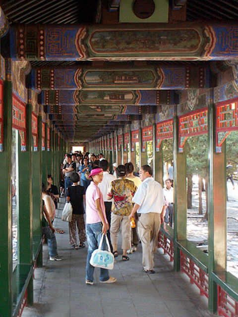 Summer Palace